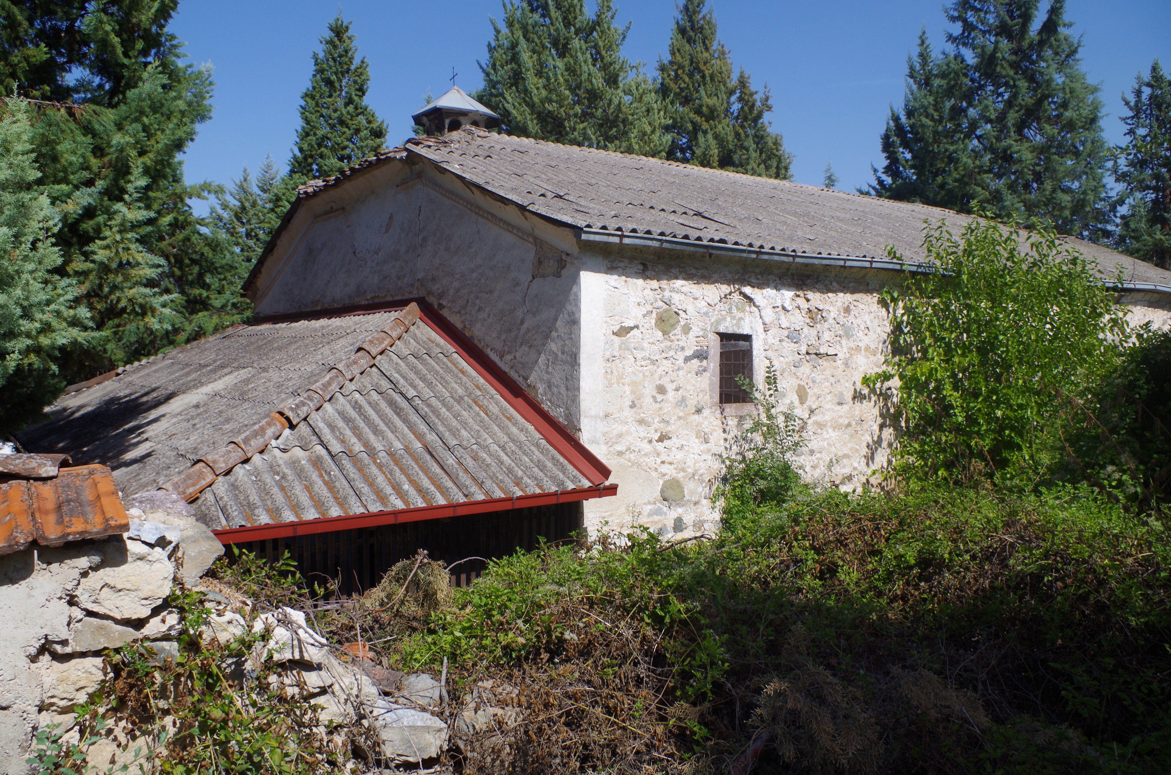 St. Michael the Archangel Church in the village of Resava